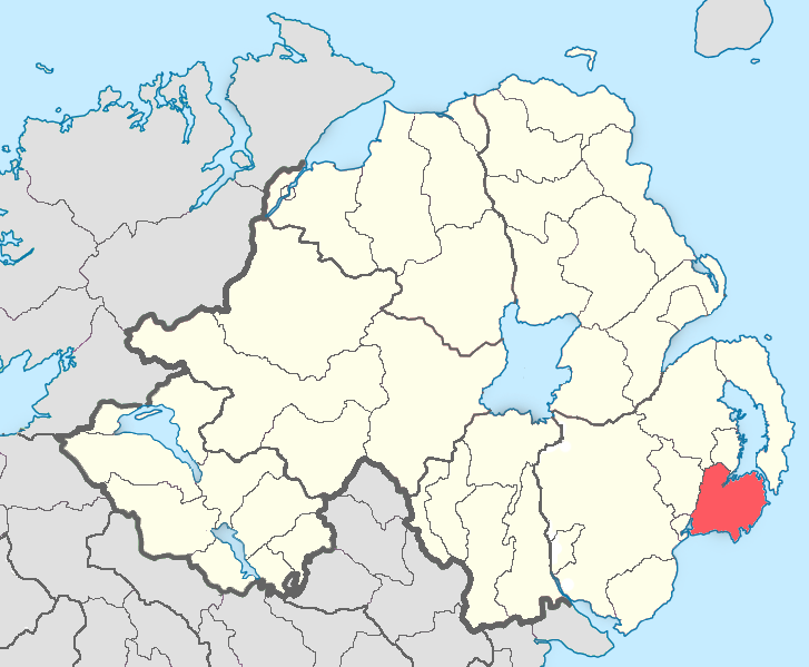 Map showing the baronies of Lower and Upper Lecale, Northern Ireland. Map based upon Nilfanion's map: File:Northern_Ireland_relief_location_map.png